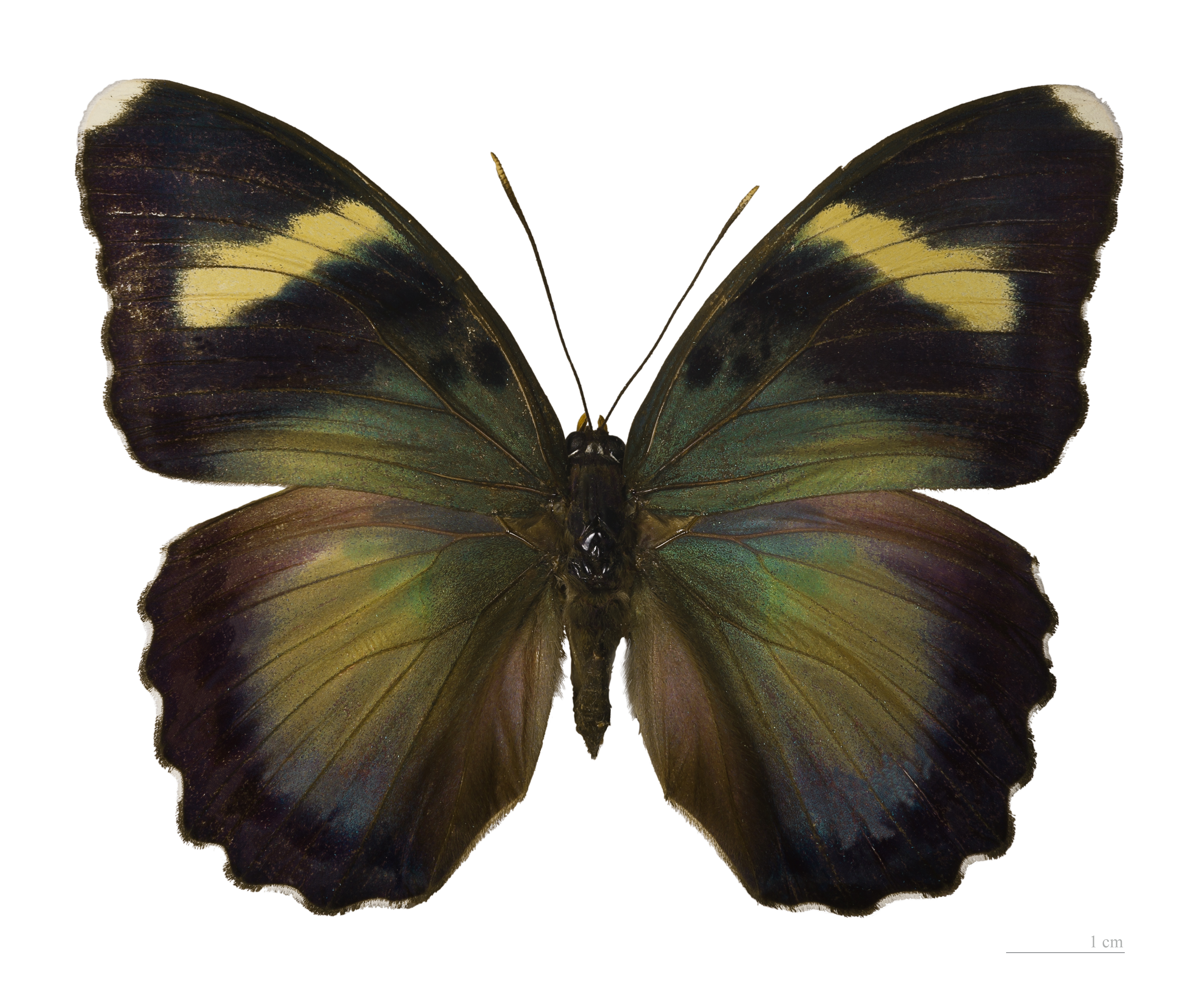 ♀ - Two views of same specimen Locality: Sébobokélé, Central African Republic